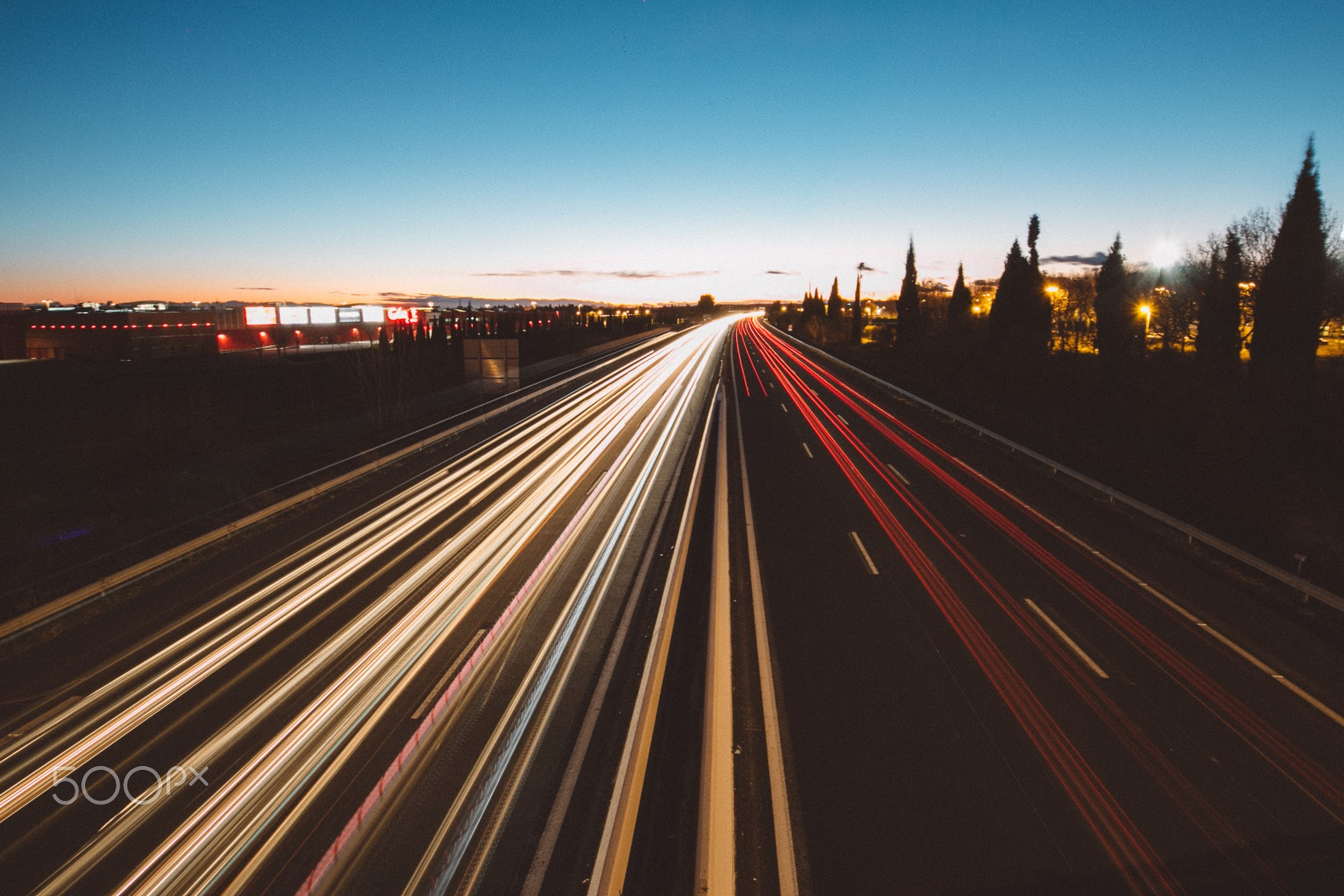 500px provided description: Light trails in Nimes, France [#sky ,#city ,#sunset ,#travel ,#night ,#sun ,#light ,#urban ,#cars ,#cityscape ,#lights ,#france ,#long ,#long exposure ,#exposure ,#light trails ,#trails ,#blue hour ,#golden hour ,#autoroute ,#Nimes]